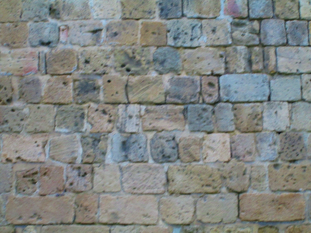 Historic Venetian Walls of Nicosia Republic of Cyprus